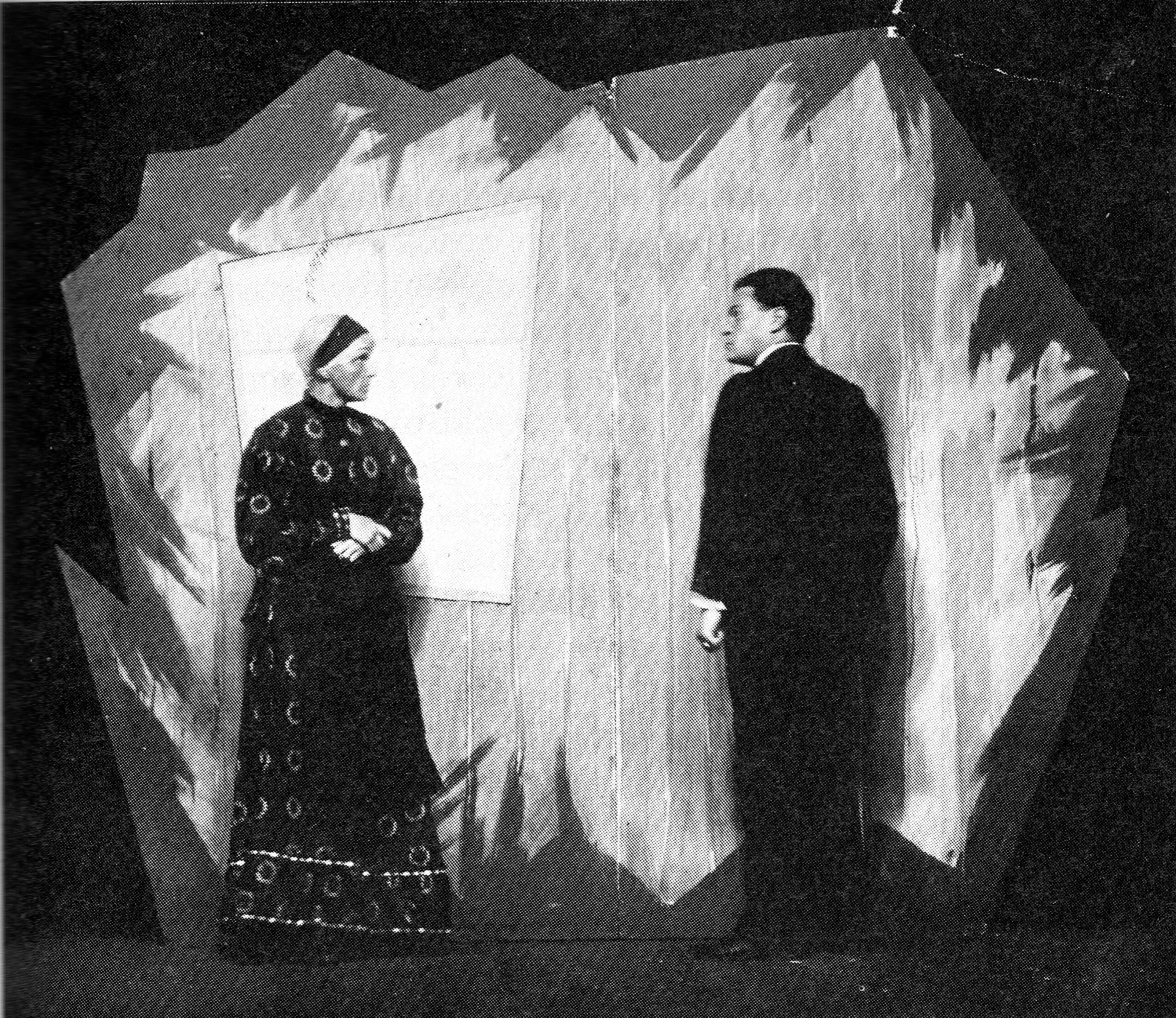 Fritz Kortner (on the right) playing the Jew Friedrich in Karlheinz Martin's production of Ernst Toller's play "Die Wandlung" at Die Tribüne in Berlin, 30 September 1919